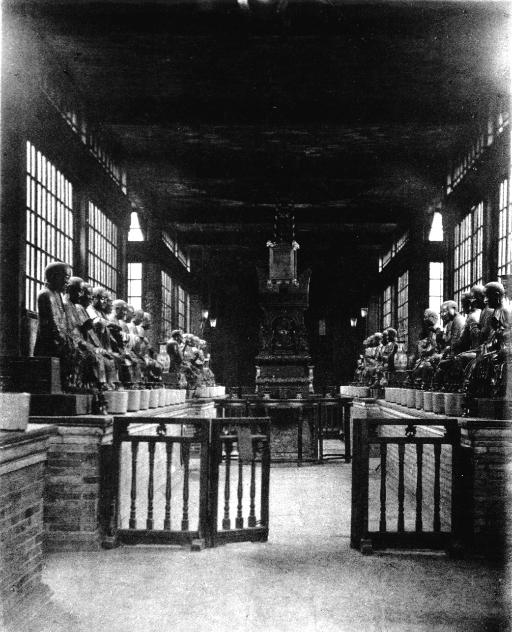 John Thomson: THIS celebrated shrine, which the Chinese call " Hua-lin-szu," " Magnificent Forest Temple," is situated in the western suburbs of Canton, and was erected by Bodhidharama, a Buddhist missionary from India, who landed in Canton about the year 520 A. D. and who is frequently pictured on Chinese tea-cups ascending the Yangtsze on his bamboo raft. The temple was rebuilt in 1755, under the auspices of the Emperor Kien-lung, and with its courts, halls, and dwellings for the priests, covers a very large space of ground. It is the Lo-Han-T'ang, or Hall of Saints, partly shown in the photograph, that forms the chief attraction of the place. This Hall contains 500 gilded effigies of saints out of the Buddhist calendar, representing men of different Eastern nationalities. Colonel Yule, in his new edition of " Marco Polo," says that one of these is an image of the Venetian traveller ; but careful inquiry proves this statement incorrect, as there is no statue presenting the European type of face, and all the records connected with them are of prior antiquity. The aged figure shown in the next picture is that of